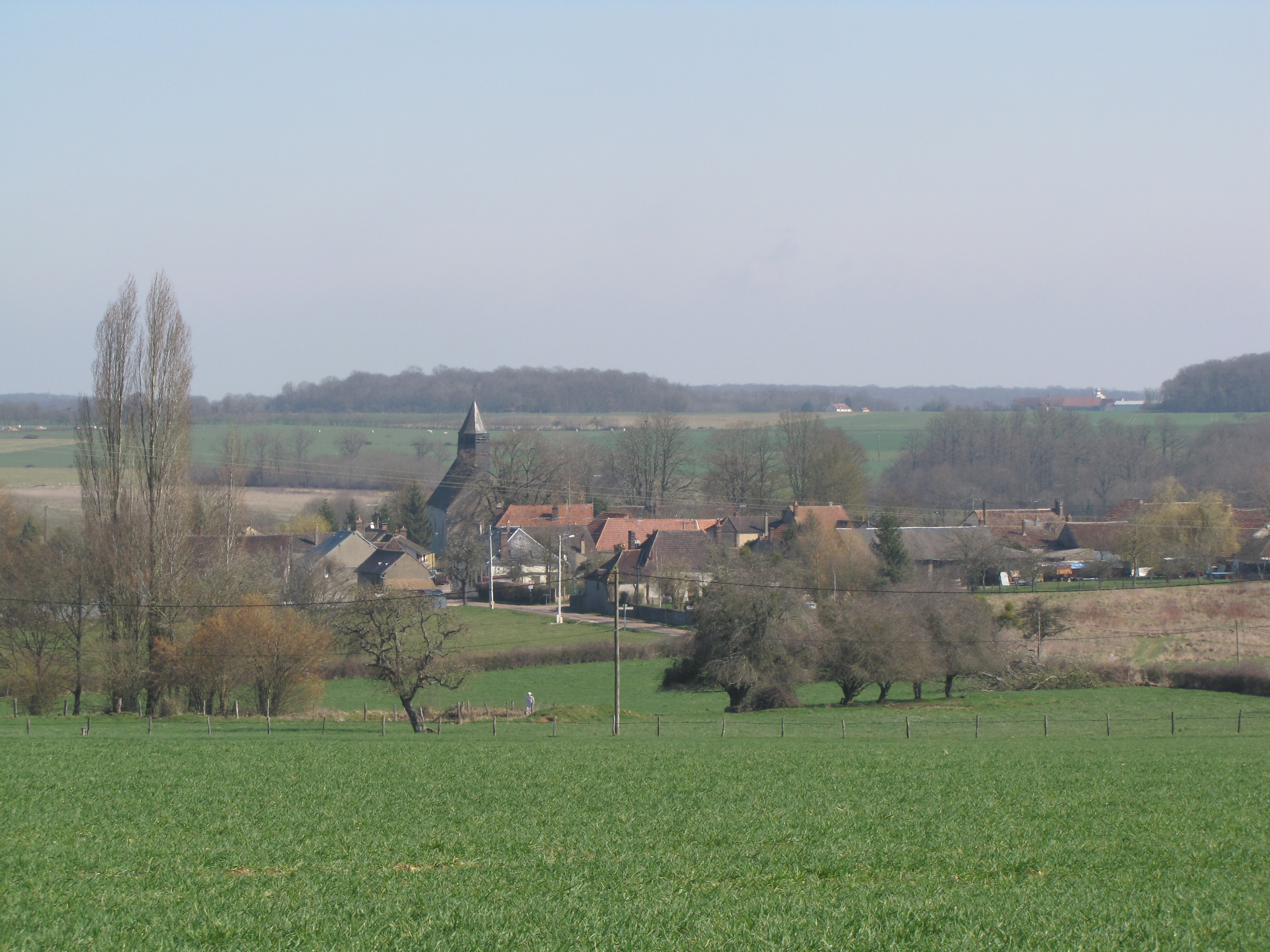 Fontenouilles, Yonne (France) - the village seen from the west